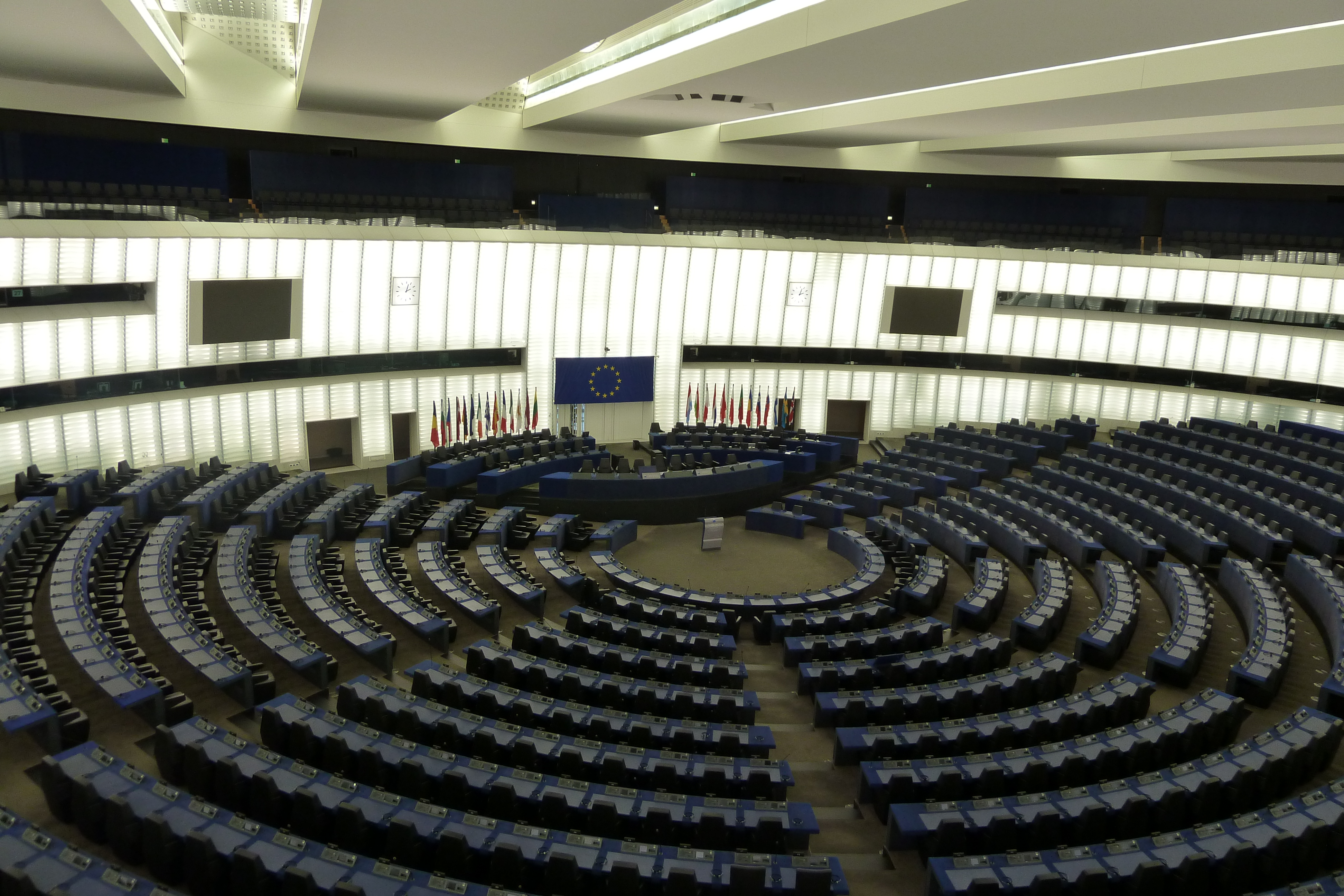 European Parliament, Strasbourg